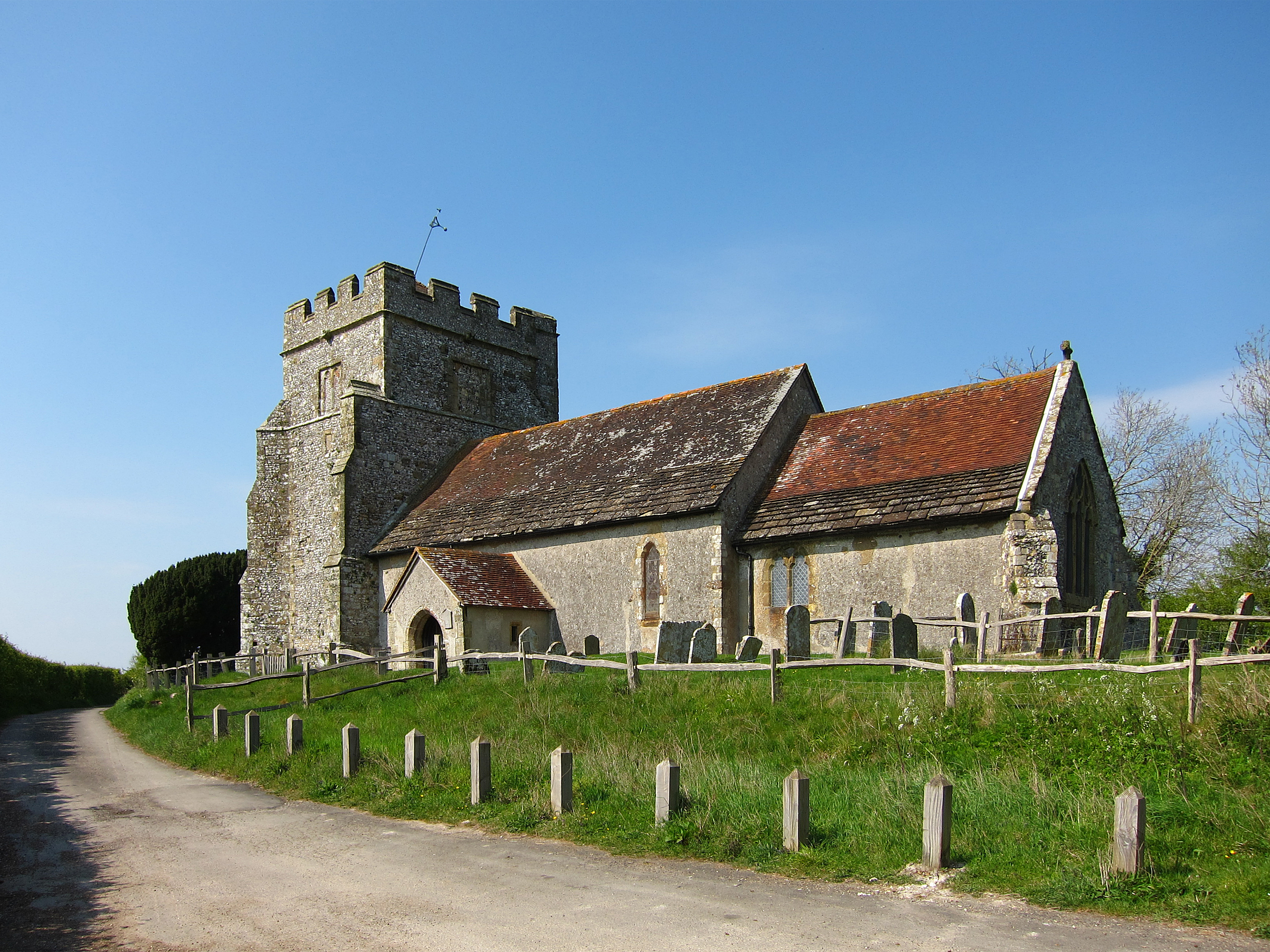 St Peter's Church, Hamsey, East Sussex, England. Wikidata has entry Q17534758 with data related to this item.